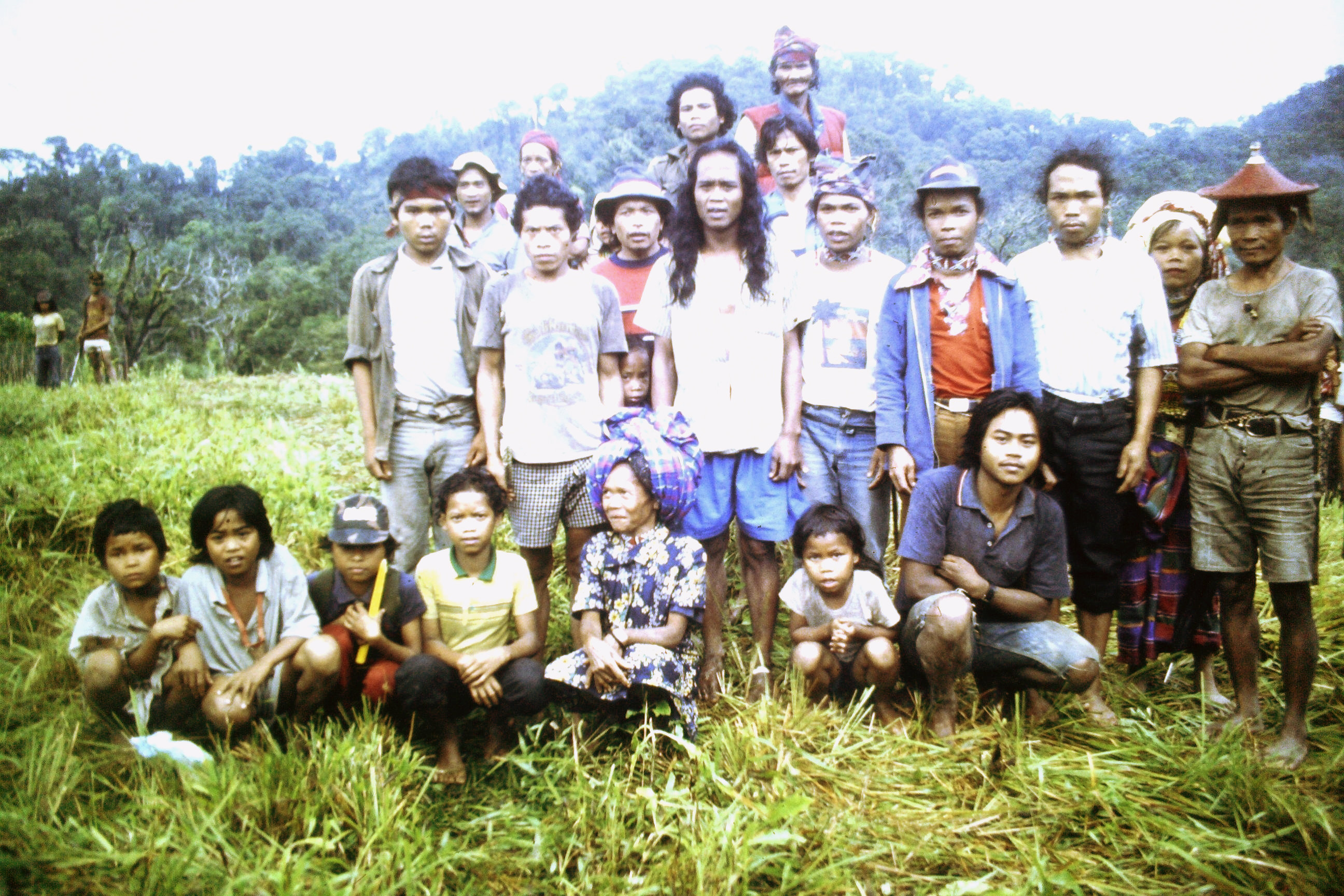 The last Tasaday in front of their home, the last primal rain forest of Mindanao, photographed by Susanne Haerpfer